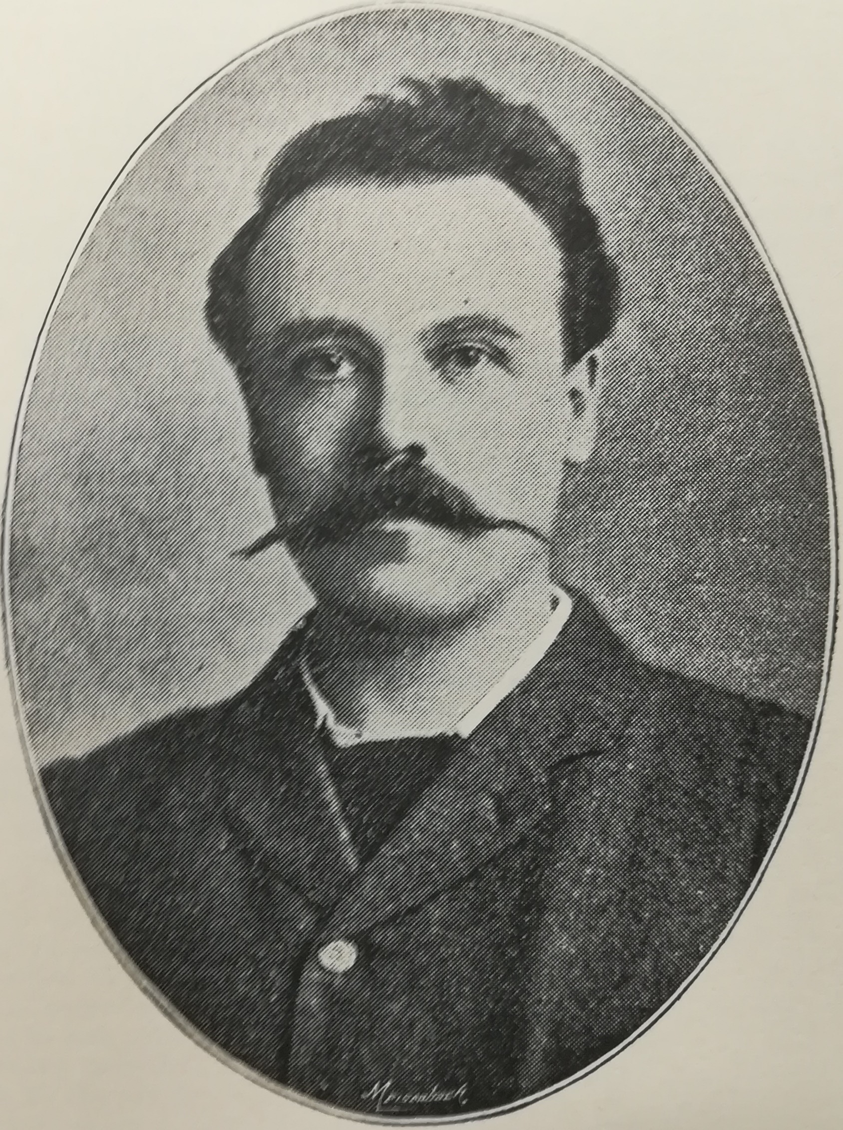 Fred Hammill, British socialist activist